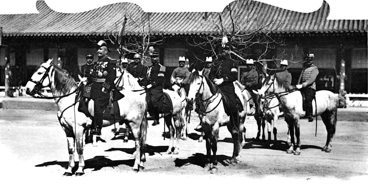 Image from Planche 1, La Chine à terre et en ballon.